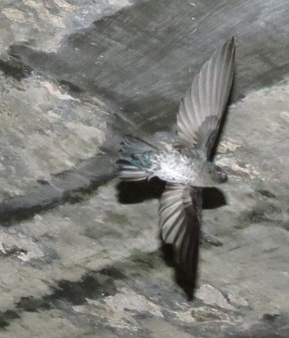 Photo of a plume-toed swiftlet circling before leaving the building that contains its colony. This bird was photographed in Peninsular Malaysia so is probably C. a. cyanoptila; its identity as a plume-toe was confirmed by the building owner via close-up photographs.